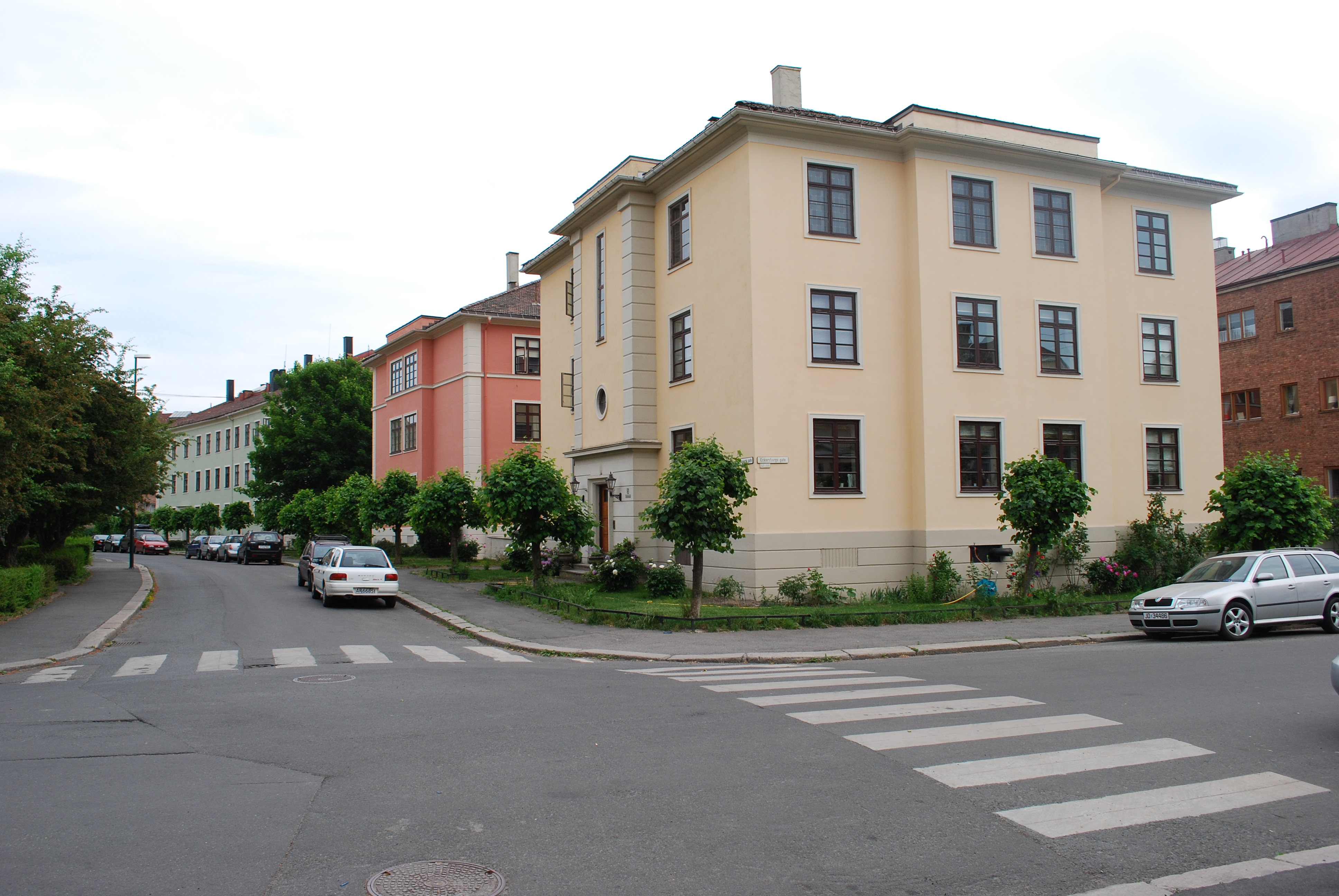 Neoclassisist blocks, Langgaardsløkken, Briskeby, Oslo, cirka 1930